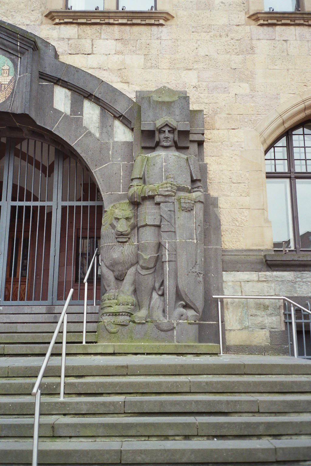 knightsculpture, called „Roland“ on guildhall/townhall, City of Recklinghausen, Germany